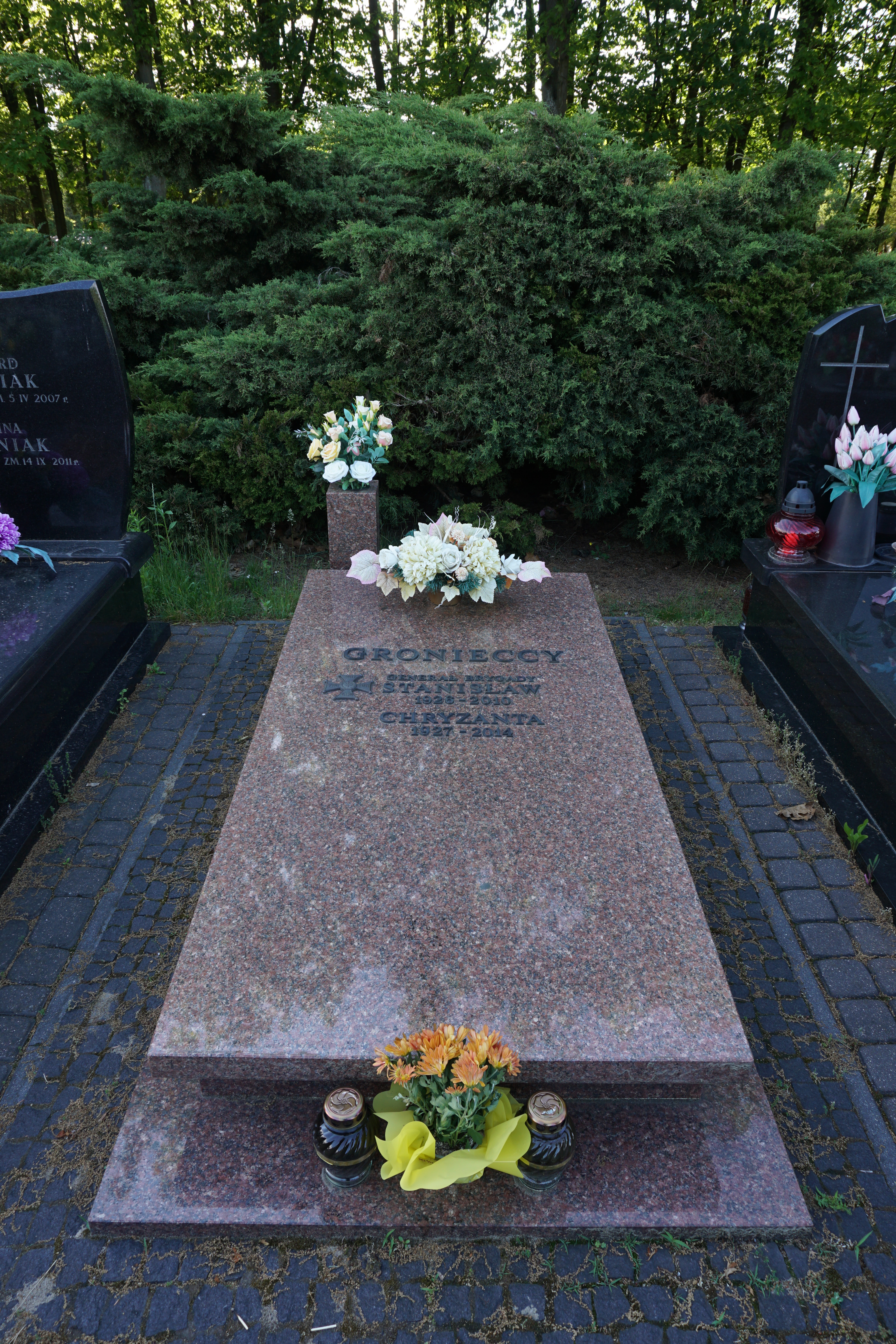 The grave of Stanisław Groniecki at the North Municipal Cemetery in Warsaw (section B-VI-1, row 8, grave 13)